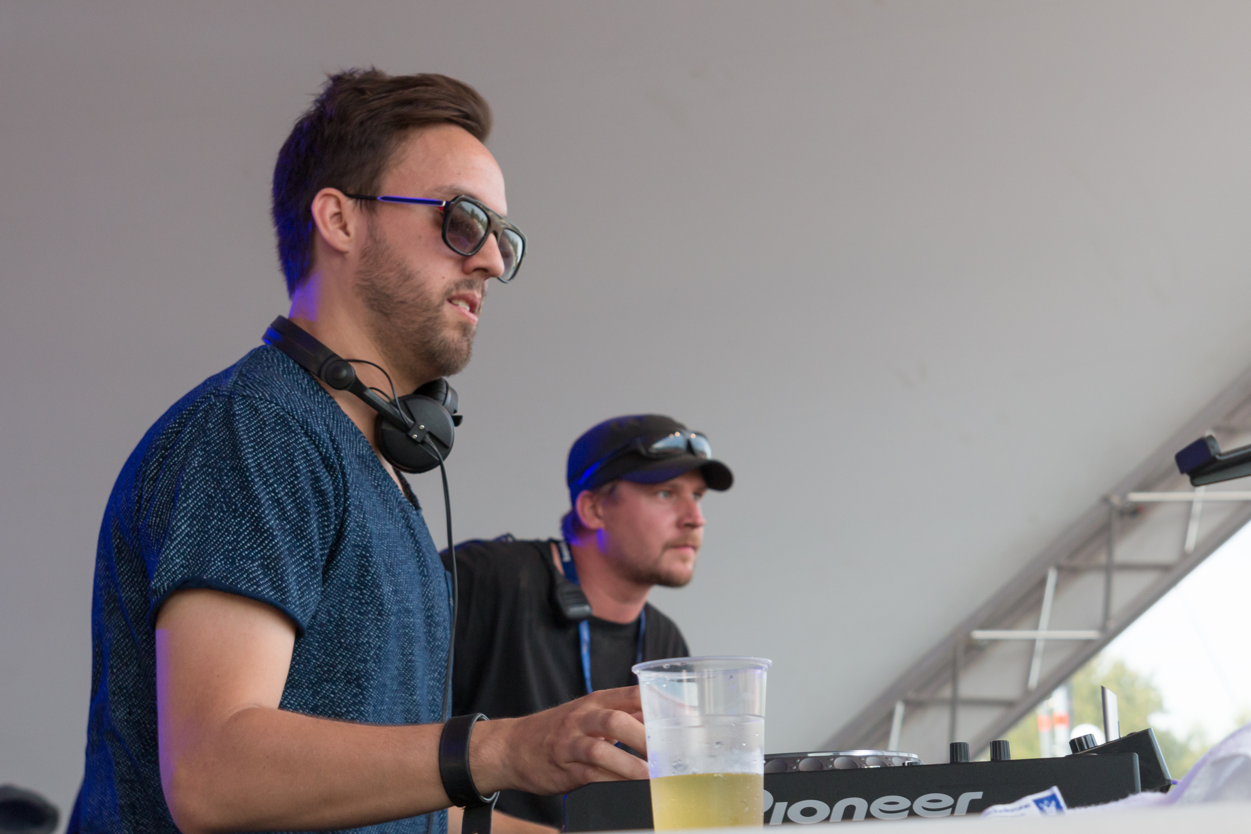 Maceo Plex at the Sea You Festival in Freiburg im Breisgau on July 19th, 2015.